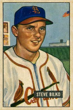 Major League Baseball player Steve Bilko in 1951.